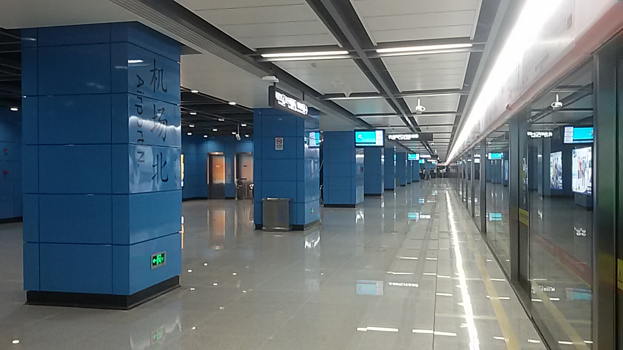 Station Platform for Airport North Station, Guangzhou Metro.